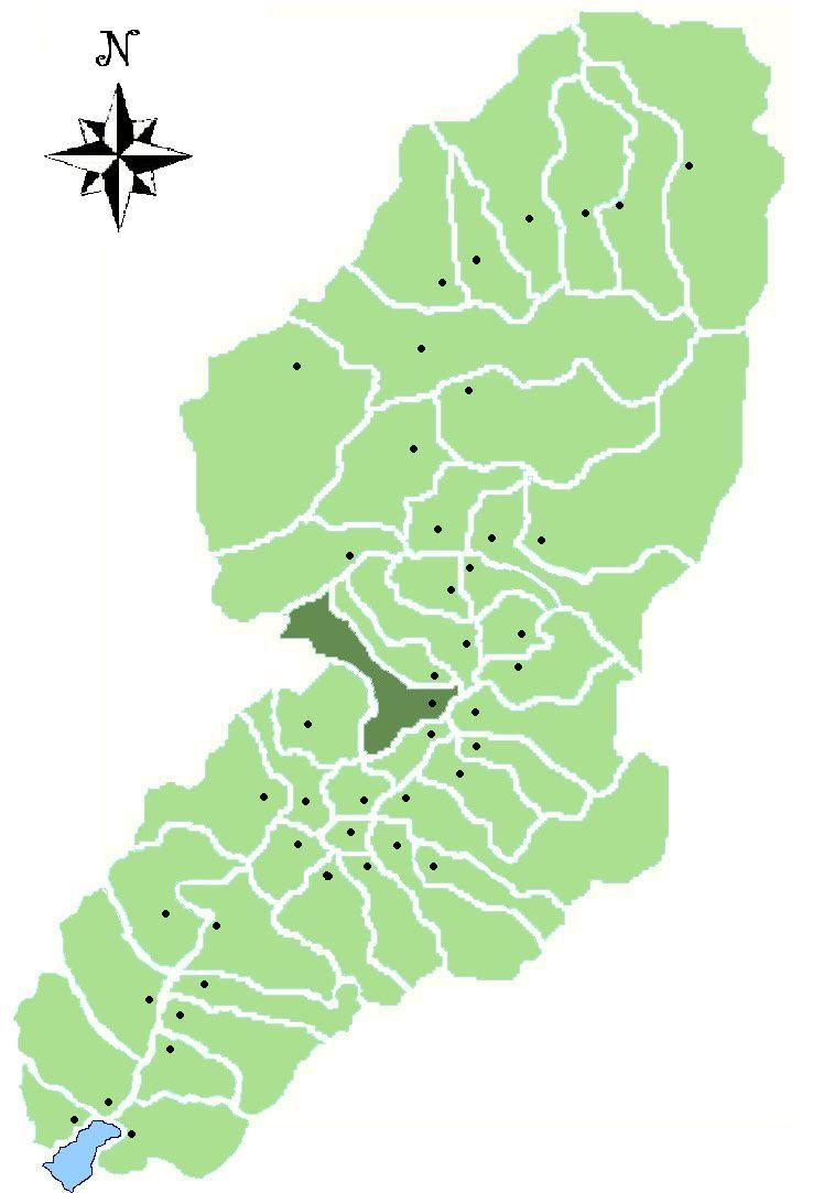 Map of the Comune di Cerveno, Valle Camonica